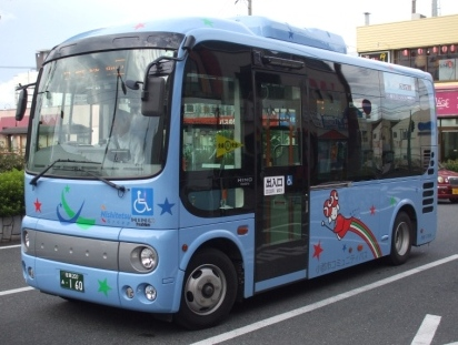 Hino Poncho for Ogori City Community Bus